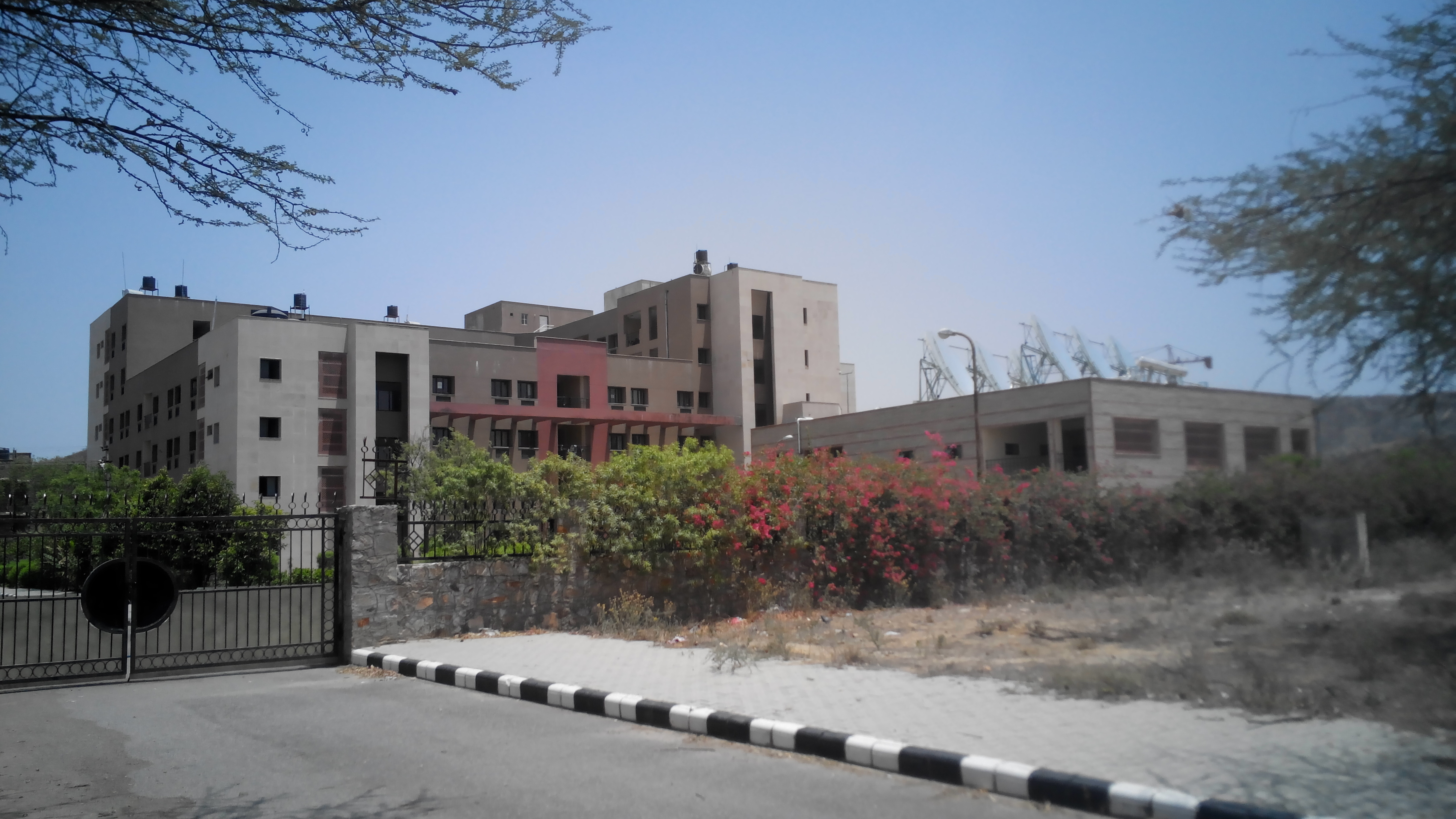 Malaviya National Institute of Technology Campus